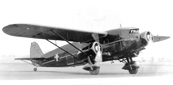 Stinson U